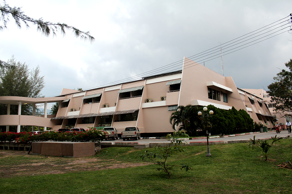 The Public Hospital at Nathon, Koh Samui